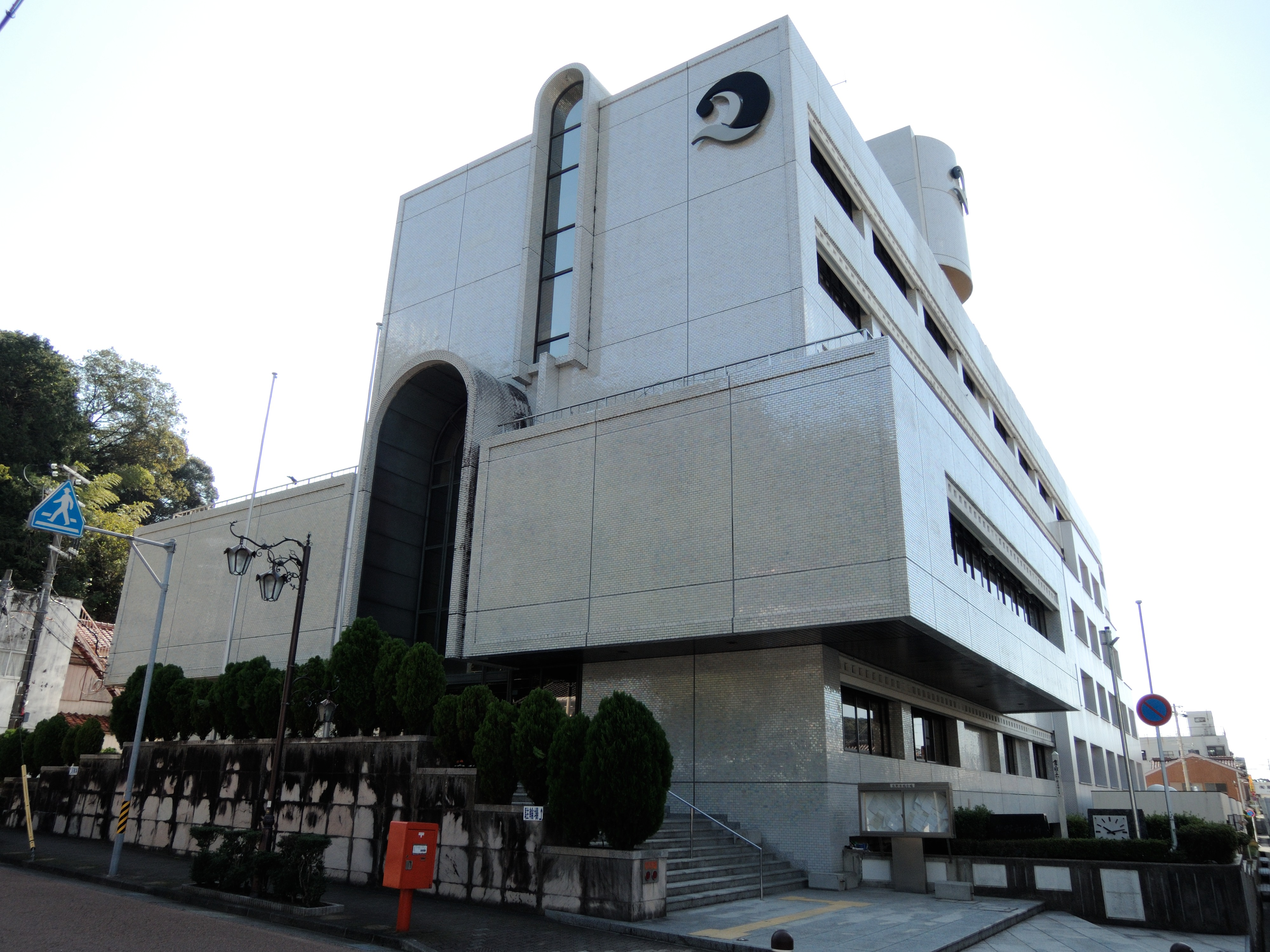 Kumano city hall,Mie prefecture,Japan